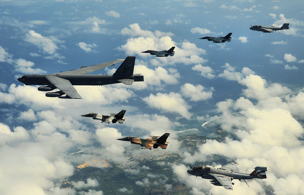 A B-52 Stratofortress currently deployed to Andersen AFB, Guam from the 23rd Expeditionary Bomb Squadron, leads a formation Feb. 10 of Japanese Air Self Defense Force F-2s from the 6th Squadron, Tsuiki Air Base, USAF F-16 Fighting Falcons from the 18th Aggressor Squadron, Eielson Air Force Base, Alaska, and Navy EA-6B Prowlers from VAQ-136 Carrier Air Wing Five, Atsugi, Japan over Guam during Cope North 09-1 at Andersen Air Force Base, Guam